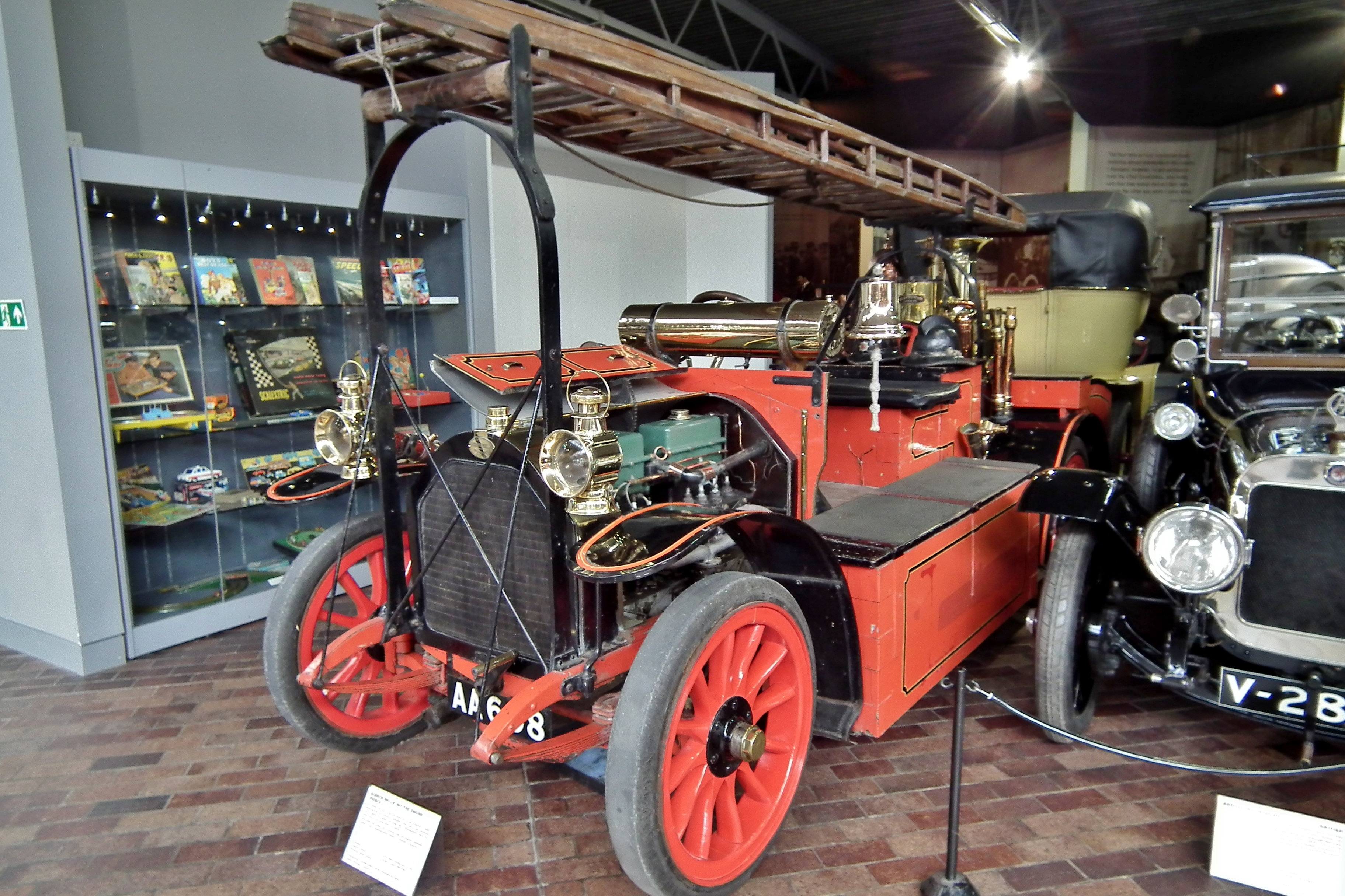 1907 Gobron Brillie Fire Engine. Taken at the National Motor Museum in Beaulieu, Hampshire, England.